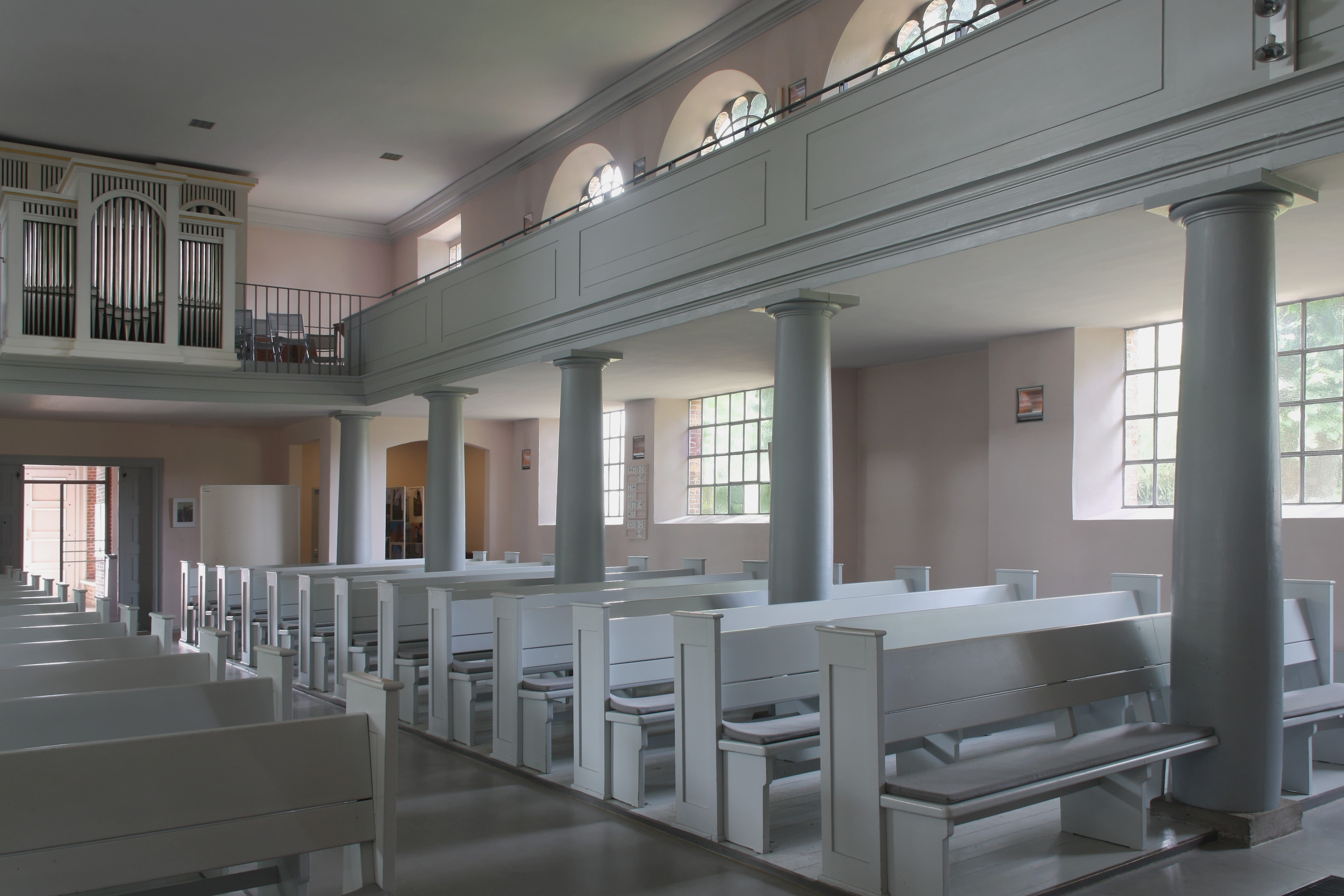 Neoclassical interior of the Church of Quickborn, Germany